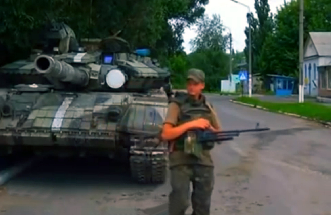 Ukrainian troops guard a road in Donbass.